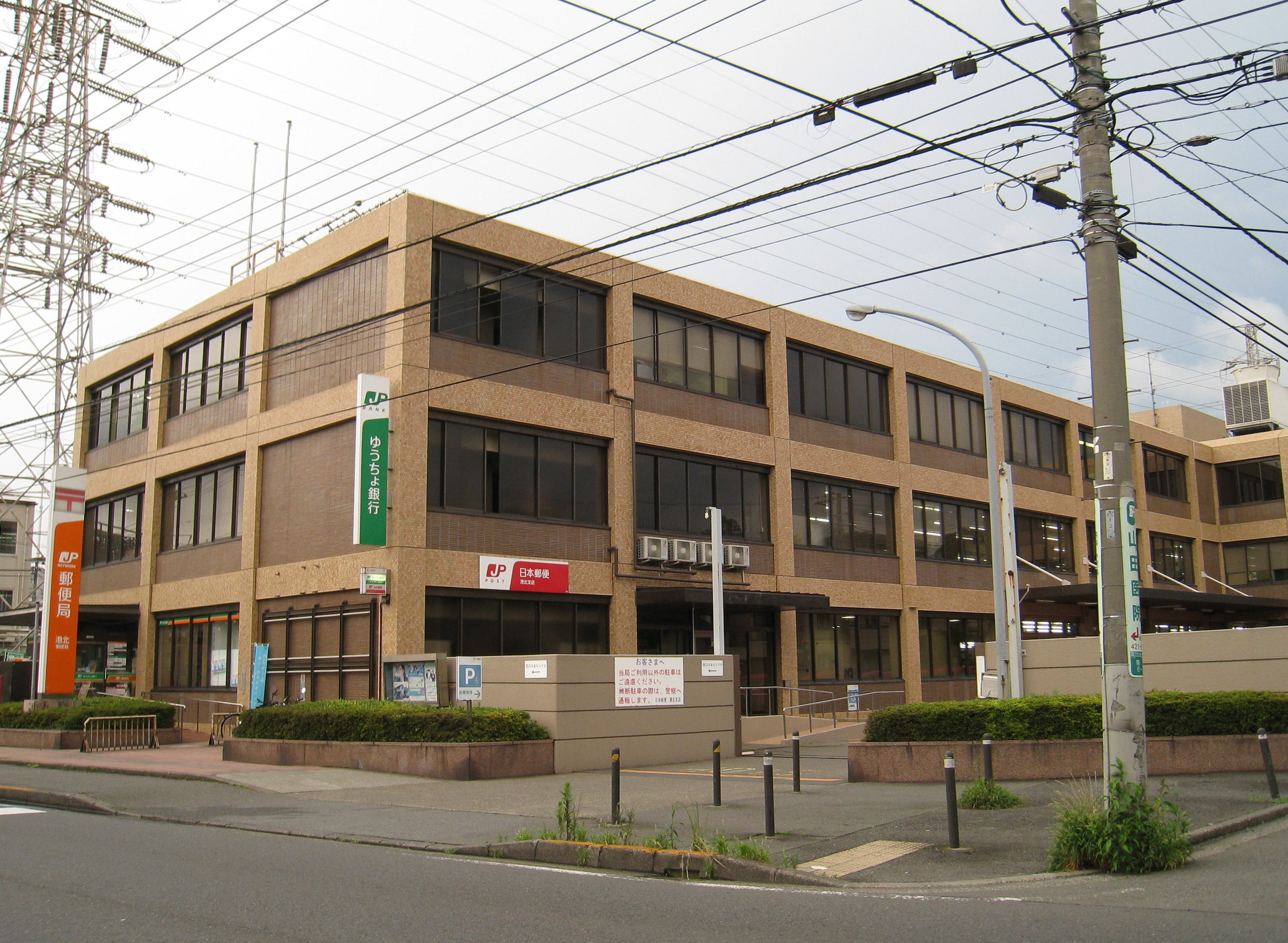 Kohoku postofice. Kohoku-ward, Yokohama-city, Japan